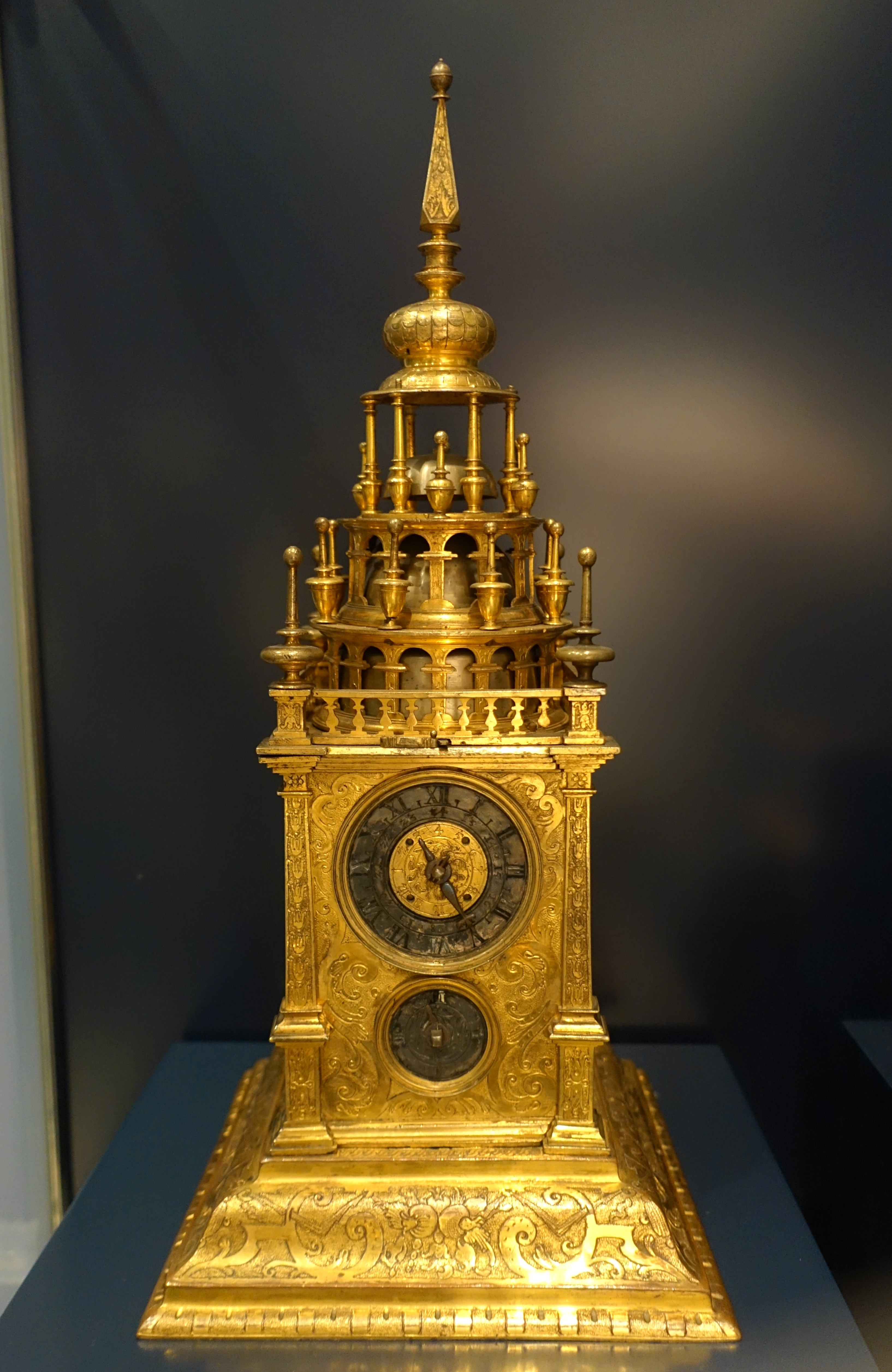 Exhibit in the Museo Nacional de Artes Decorativas, Madrid, Spain. This work is in the public domain because the artist died more than 100 years ago.